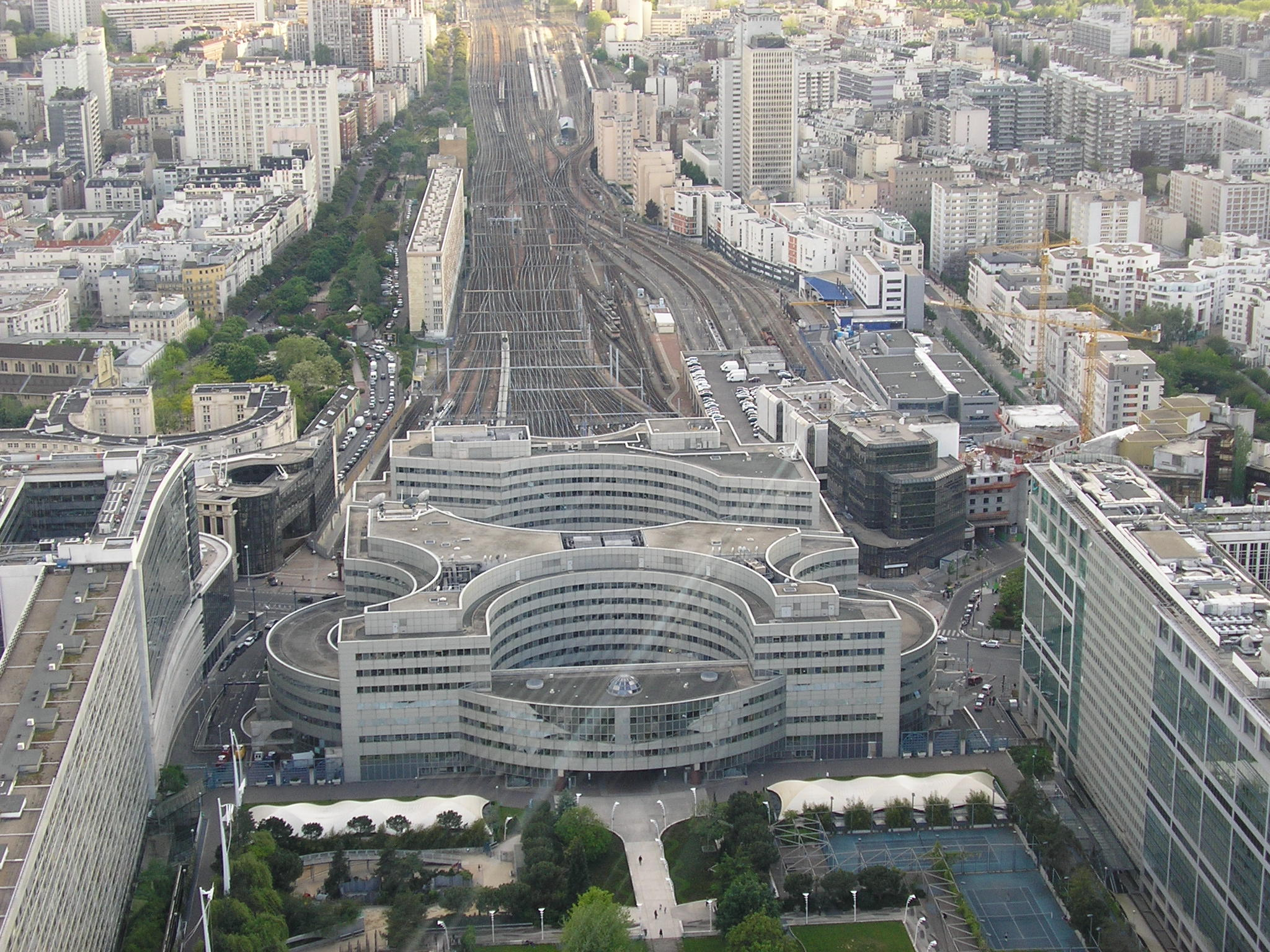 View from the Tour Montparnasse, taken May 2005 and released into public domain. Astrotrain 19:24, 18 June 2006 (UTC)